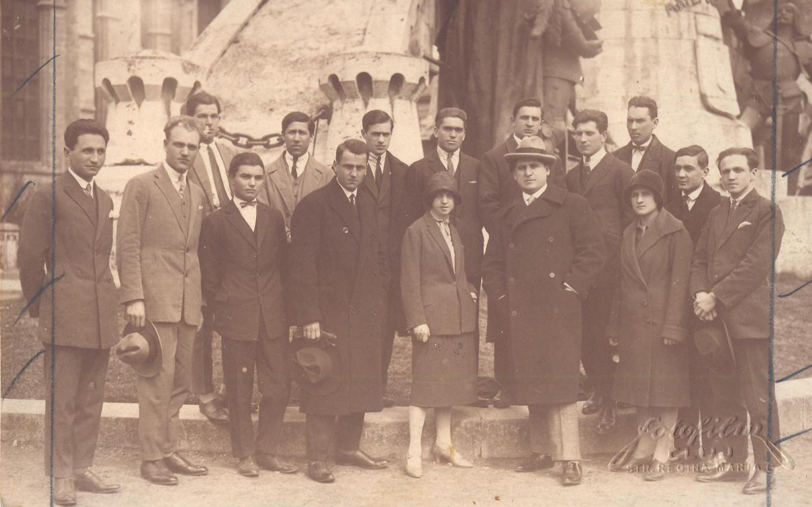 Petar Raychev with studets from Bulgaria in Lvov, 1927.